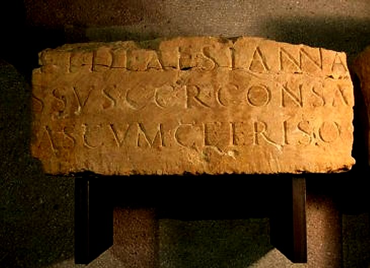 The fragment on which the words Deae Stannae are engraved.